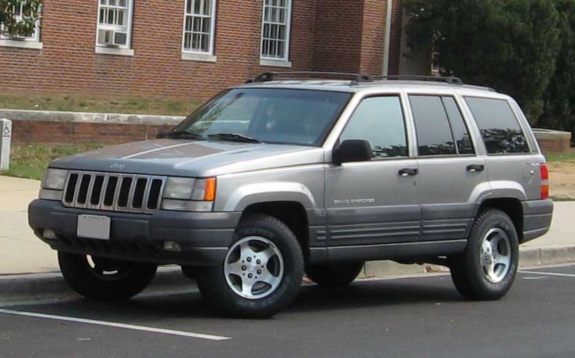 1996-1998 Jeep Grand Cherokee photographed in USA.